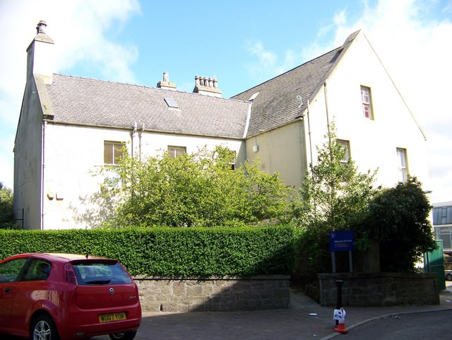 Hawkhill House - offices for the Dundee University Museum Services Hawkhill House is the oldest building on the campus. It is an 18th century farm house which later housed the warden of Belmont Hall and the Botany department.